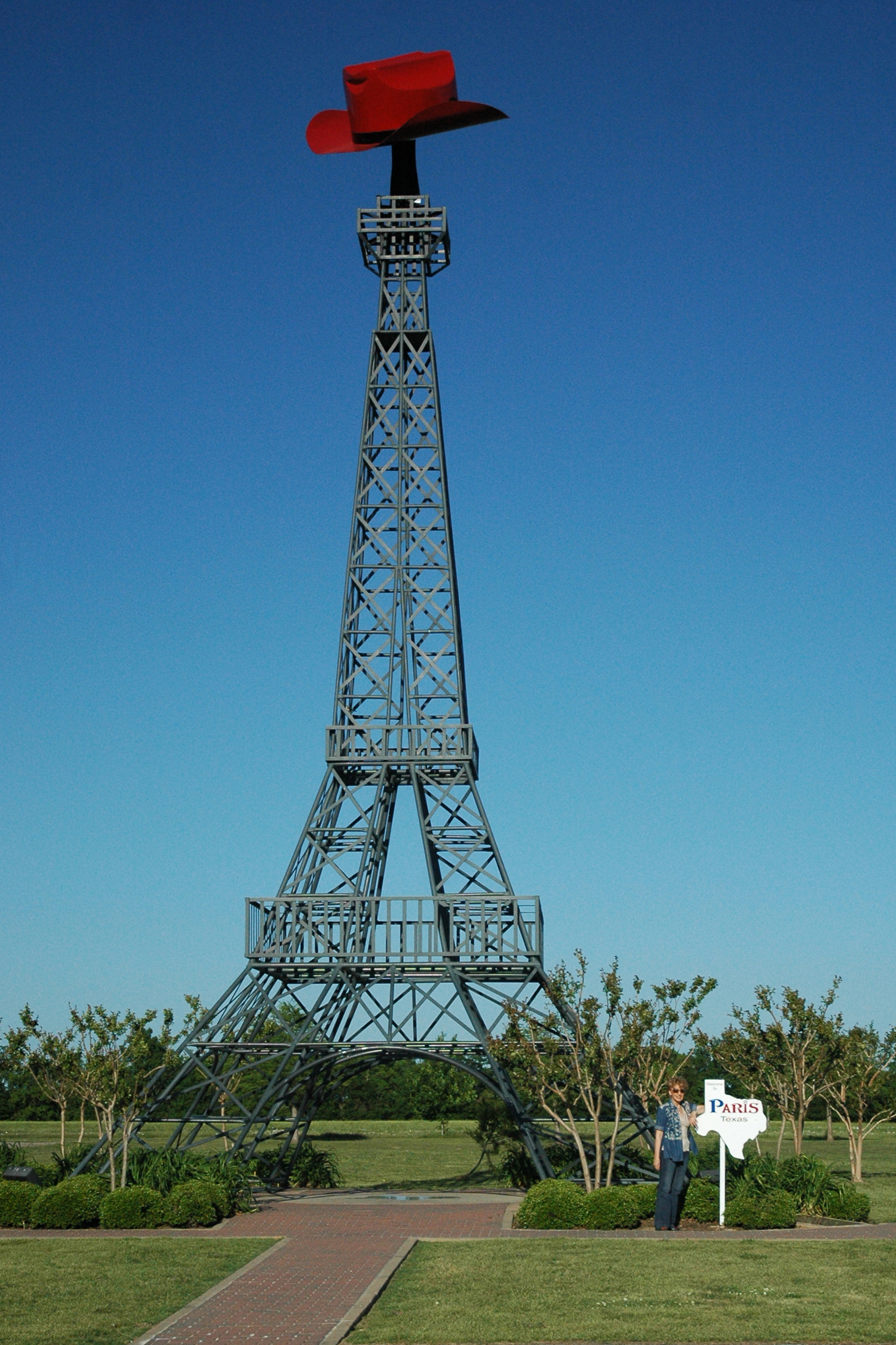 Replica of the Eiffel Tower in Paris, Texas